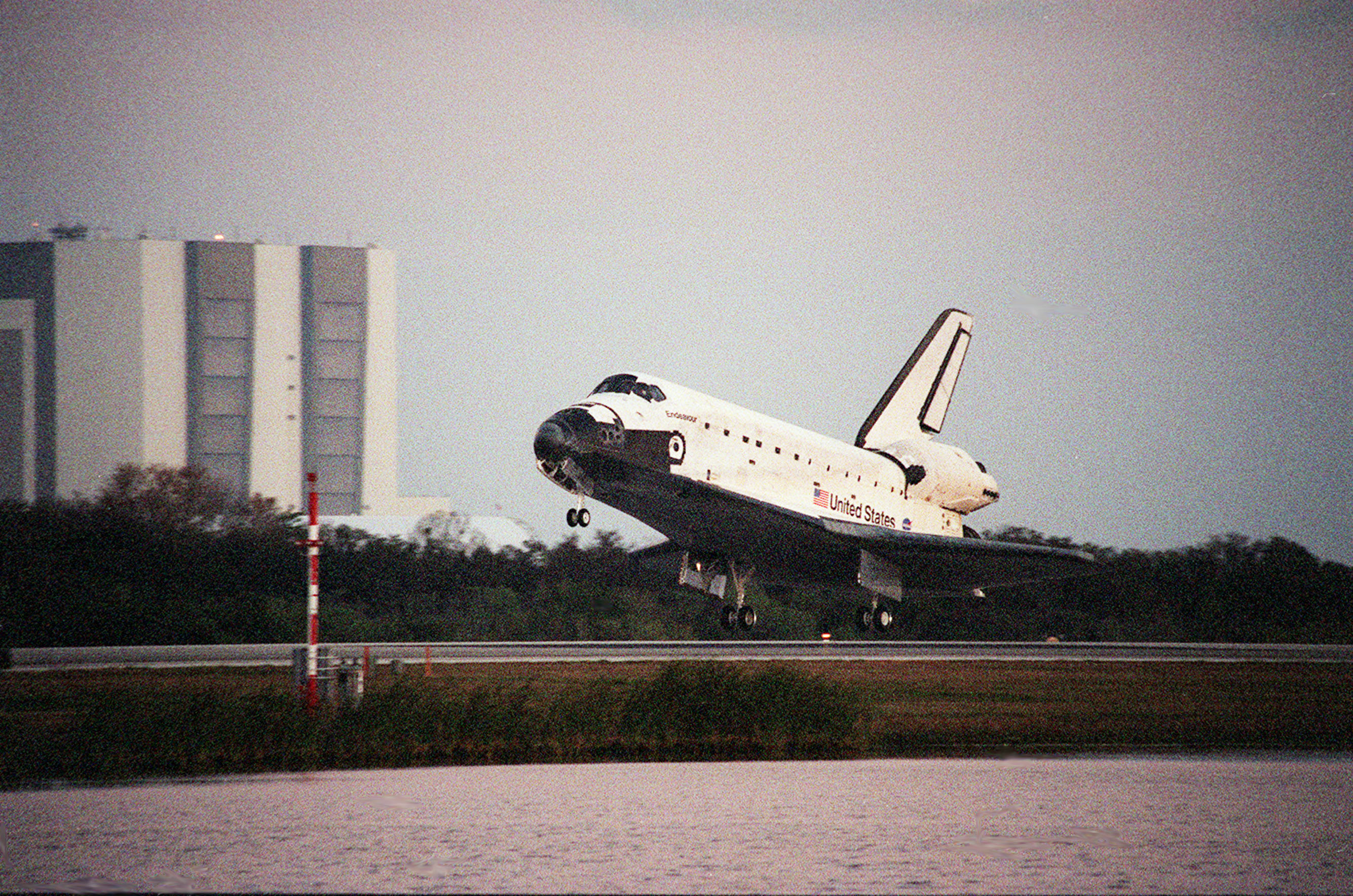 In the waning light after sundown, Space Shuttle Endeavour touches down on KSC's Shuttle Landing Facility Runway 33 to complete the 11-day, 5-hour, 38-minute-long STS-99 mission. At the controls are Commander Kevin Kregel and Pilot Dominic Gorie. Also onboard the orbiter are Mission Specialists Janet Kavandi, Janice Voss, Mamoru Mohri of Japan and Gerhard Thiele of Germany. Mohri is with the National Space Development Agency (NASDA) and Thiele is with the European Space Agency. The crew are returning from the Shuttle Radar Topography Mission after mapping more than 47 million square miles of the Earth's surface. Main gear touchdown was at 6:22:23 p.m. EST Feb. 22, landing on orbit 181 of the mission. Nose gear touchdown was at 6:22:35 p.m. EST, and wheel stop at 6:23:25 p.m. EST. This was the 97th flight in the Space Shuttle program and the 14th for Endeavour, also marking the 50th landing at KSC, the 21st consecutive landing at KSC, and the 28th in the last 29 Shuttle flights.